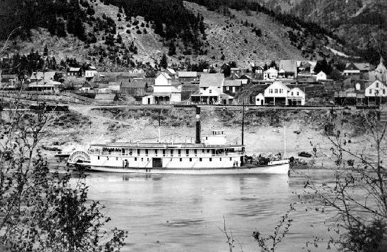 R.P. Rithet sternwheel steamer, at Yale on Fraser River, 1882